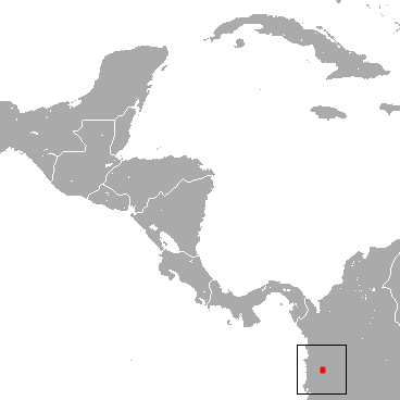 Hernandez-Camacho's Night Monkey (Aotus jorgehernandezi) range